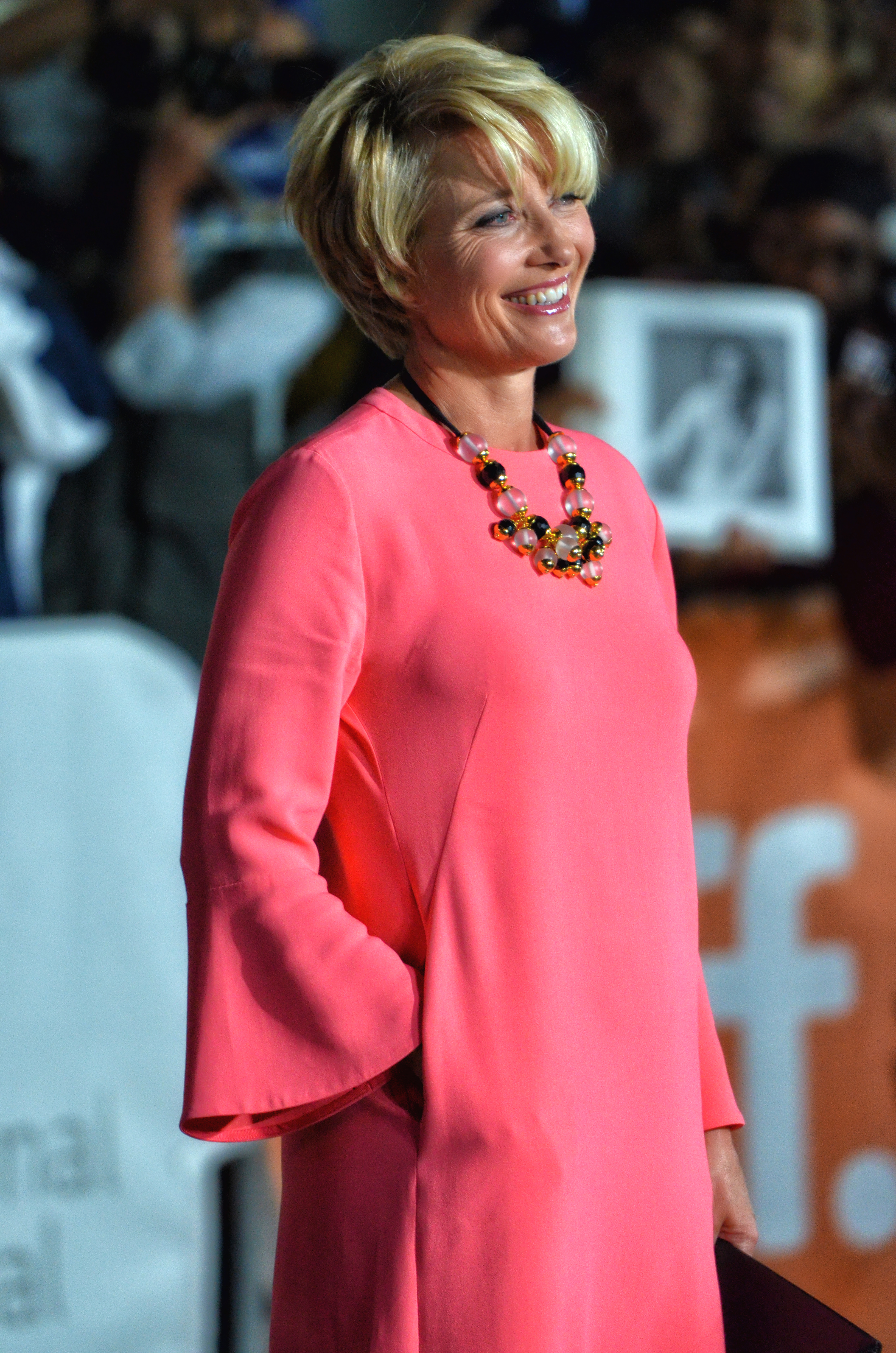 Emma Thompson at the premiere of The Love Punch at the 2013 Toronto International Film Festival.